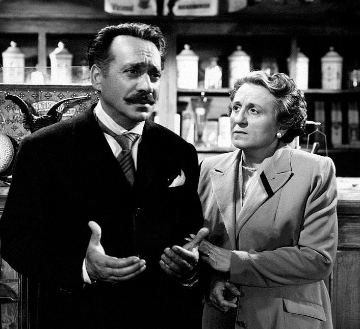 Italian actor Umberto Spadaro talking to Italian actress Titina De Filippo (Annunziata De Filippo) in the film Cani e gatti (Italy, 1952).